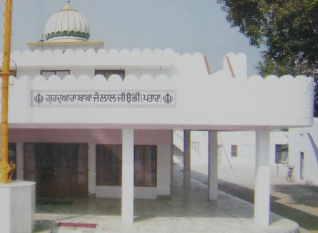 Photograph of Baba Jai Lal Ji Gurdwara